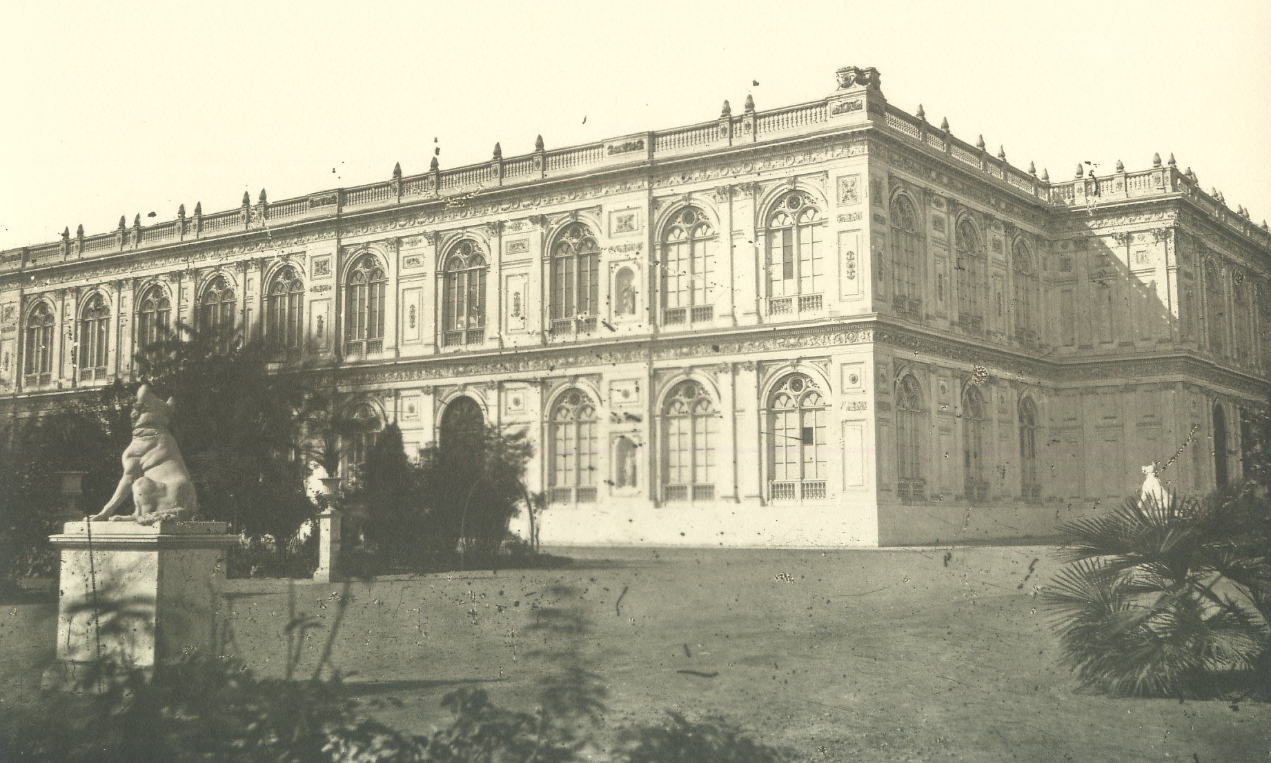 National Exposition's Palace of Lima